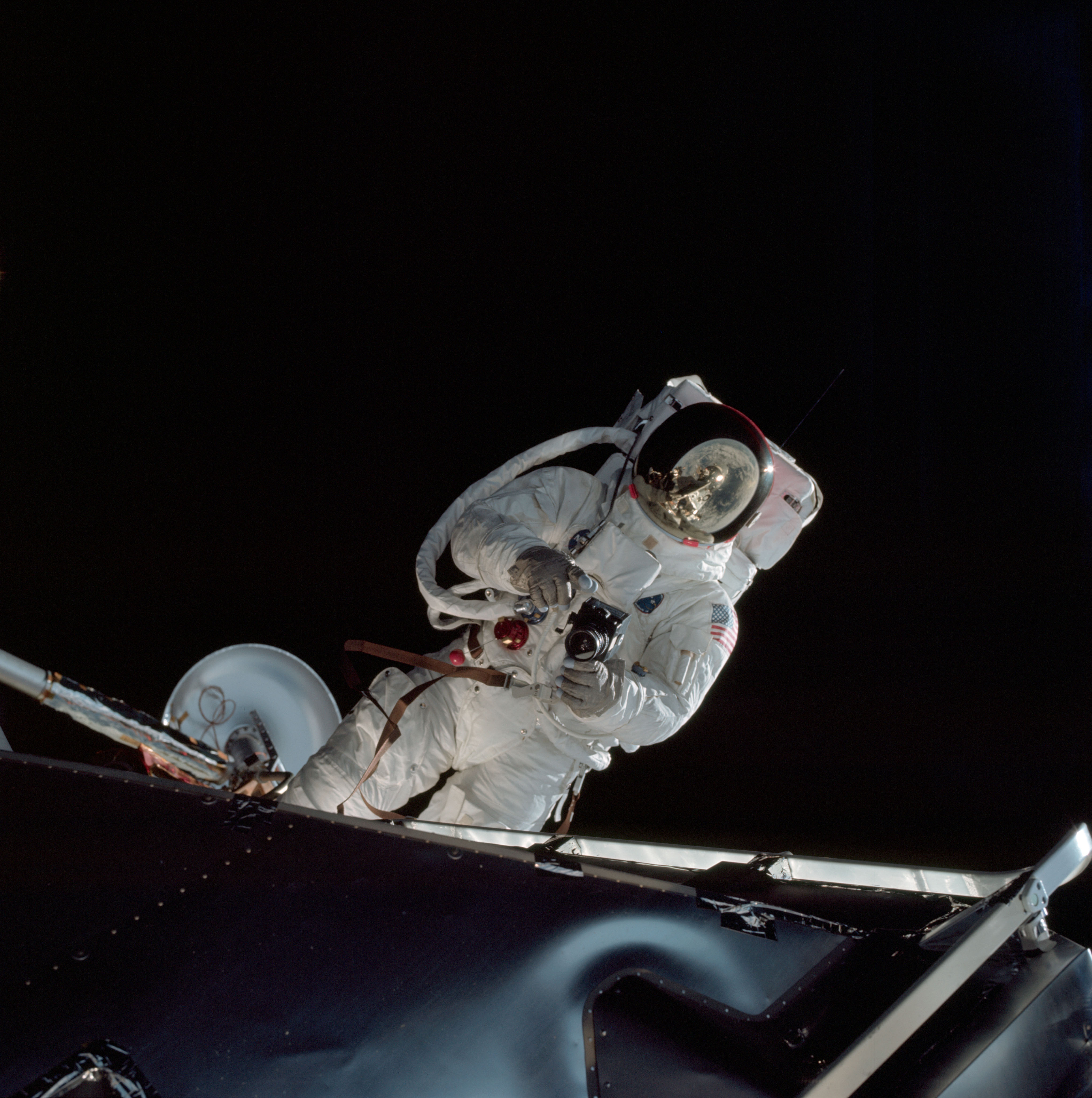 Astronaut Russell L. Schweickart, lunar module pilot, operates a 70mm Hasselblad camera during his extravehicular activity on the fourth day of the Apollo 9 earth-orbital mission. The Command/Service Module and the Lunar Module 3 "Spider" are docked. This view was taken from the Command Module "Gumdrop". Schweickart, wearing an Extravehicular Mobility Unit (EMU), is standing in "golden slippers" on the Lunar Module porch. On his back, partially visible, are a Portable Life Support System (PLSS) and an Oxygen Purge System (OPS). Film magazine was A, film type was SO-368 Ektachrome with 0.460 - 0.710 micrometers film / filter transmittance response and haze filter,80mm lens.